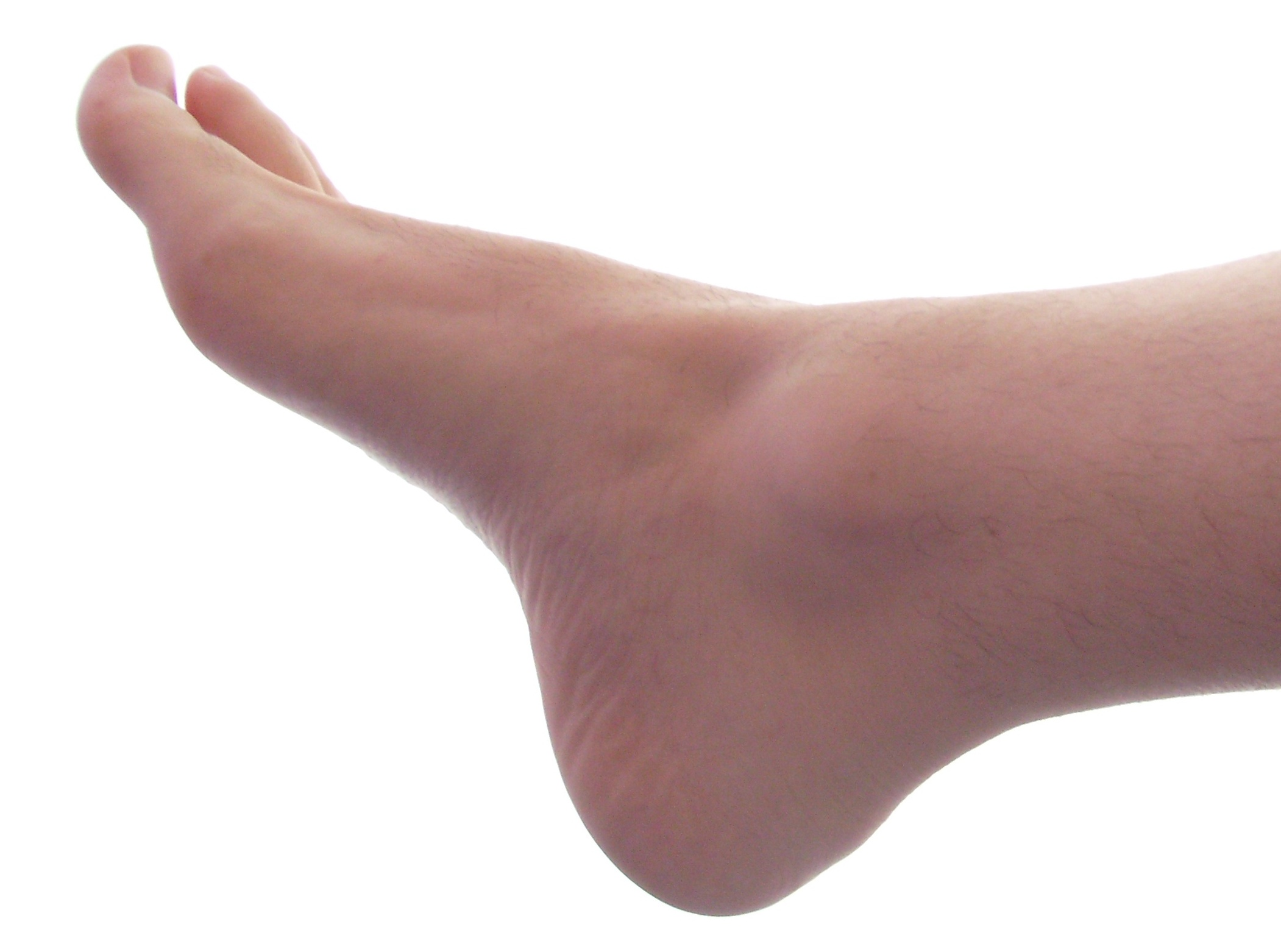 Grown male right foot (angle 1)